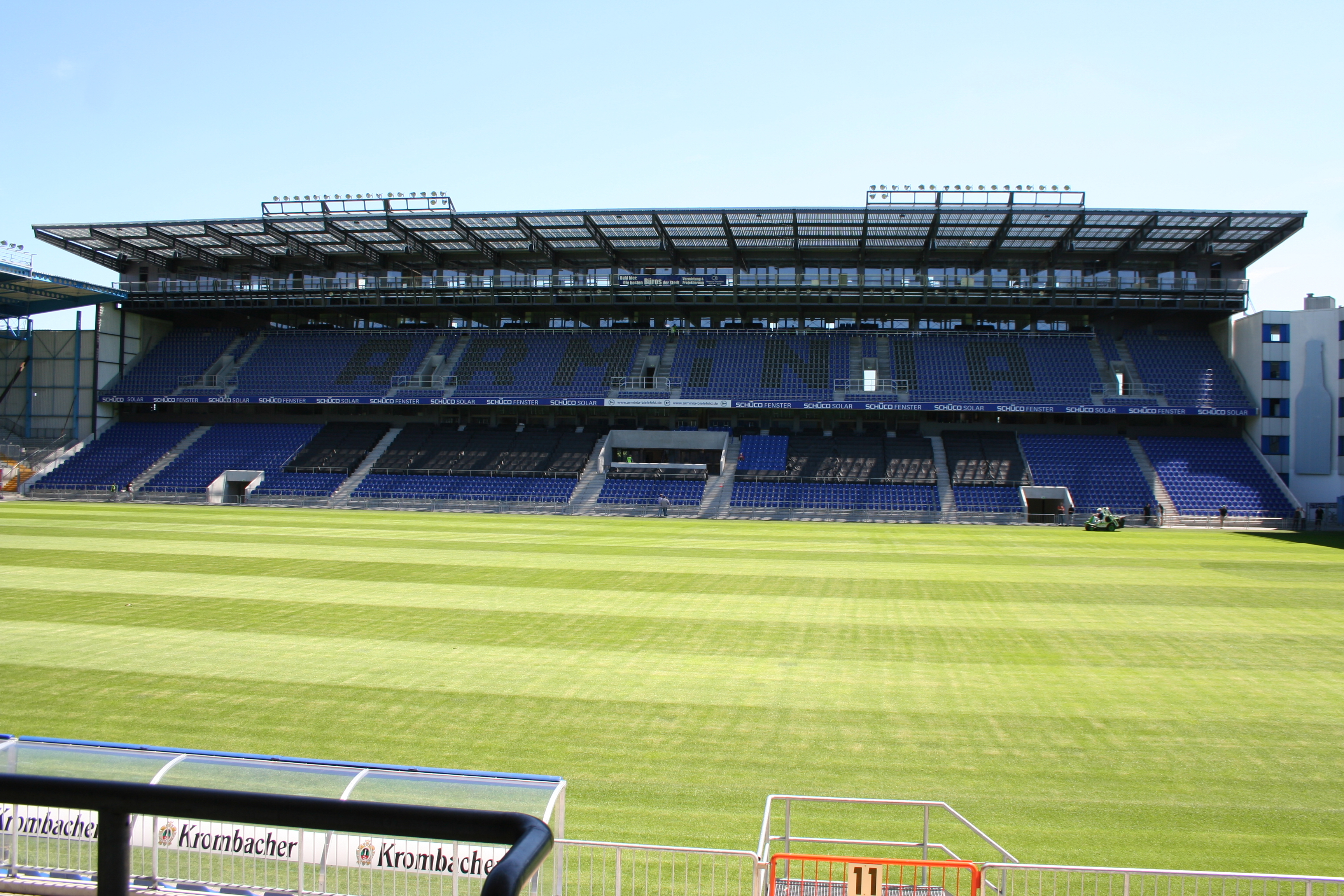 New Grand Stand of the Bielefelder Alm (aka SchücoArena), built in 2007/08.